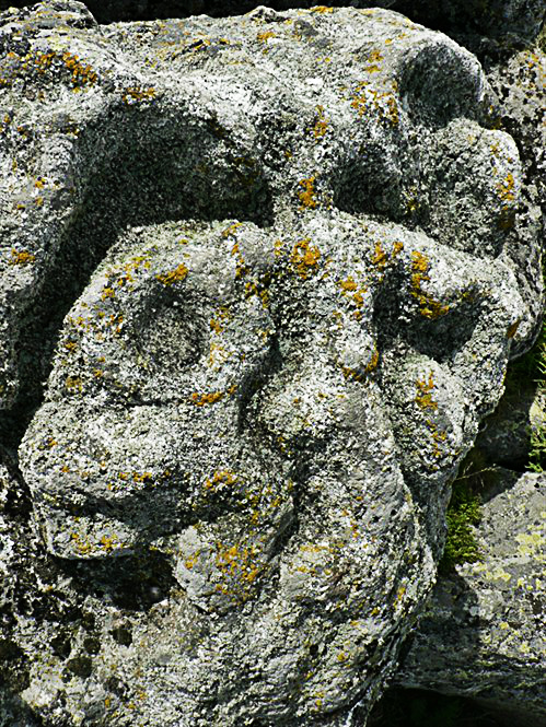 Face shape Tsarev vruh shrine BG